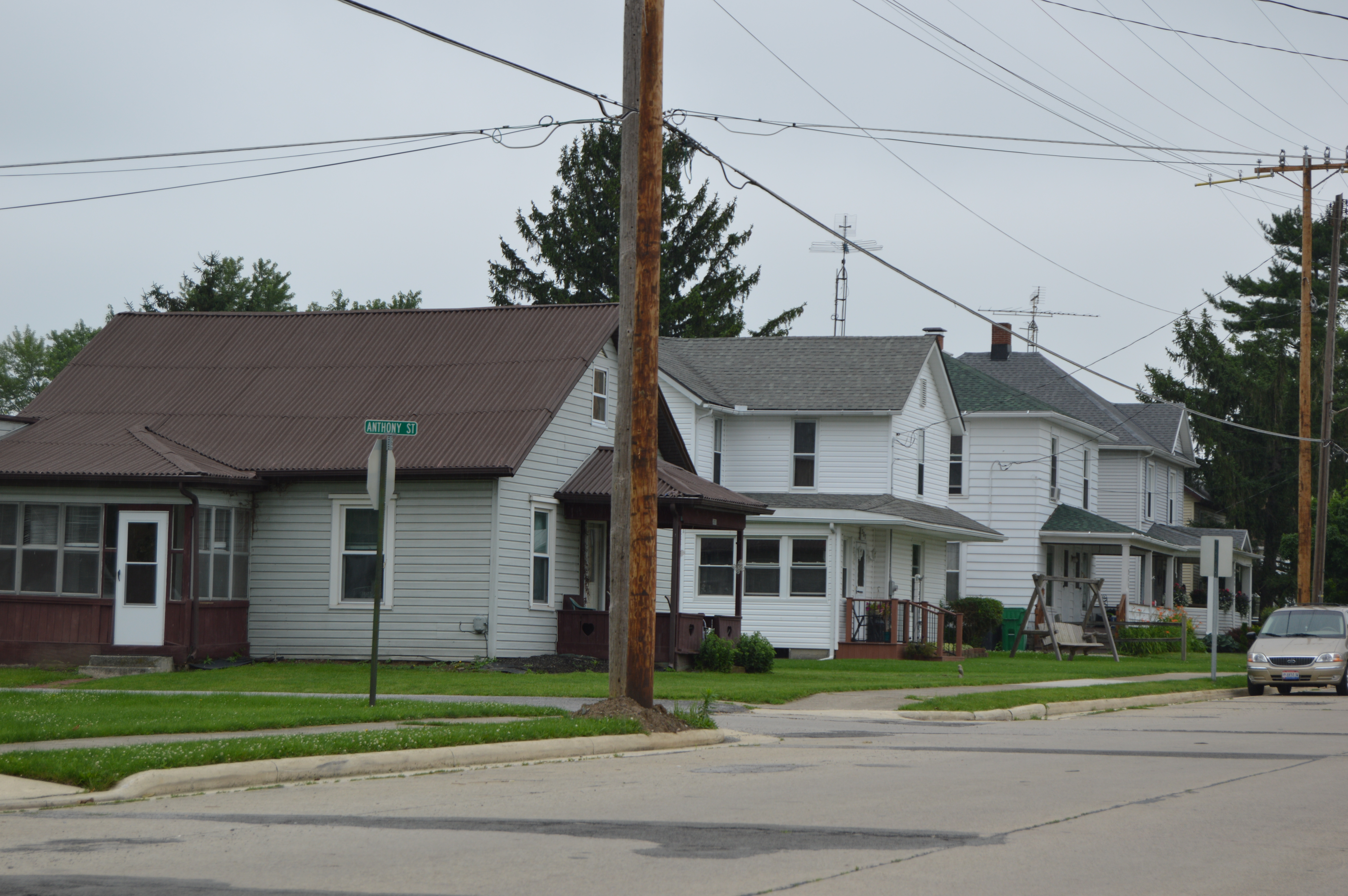 Houses on the southern side of Main Street at the Anthony Street intersection in Cairo, Ohio, United States.